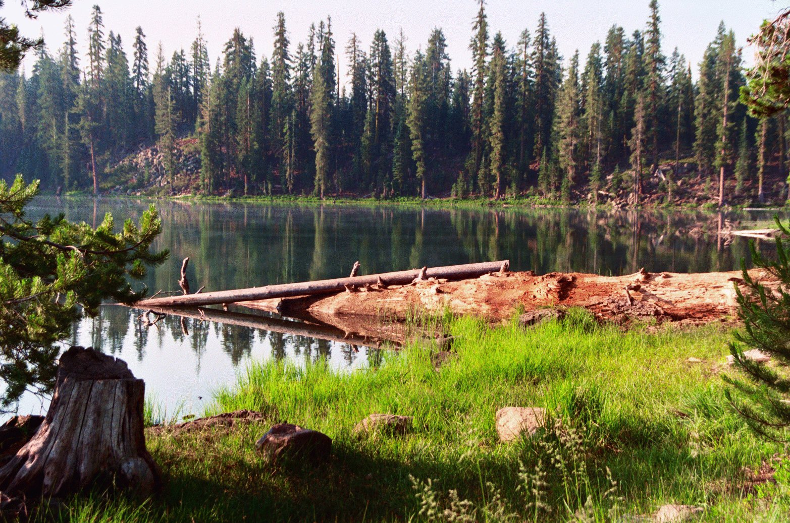 Echo Lake — in Lassen National Forest, Northern California.